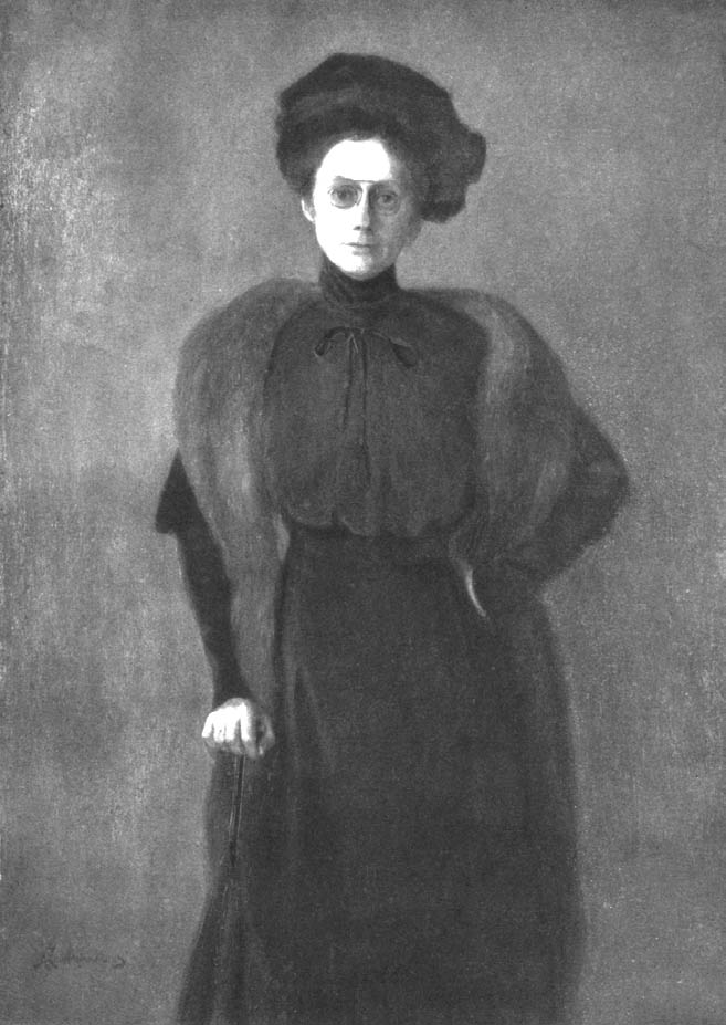 Antanas Žmuidzinavičius. “Portrait of a Wife.” 1910. Oil on plywood. National M. K.Čiurlionis Museum of Art.